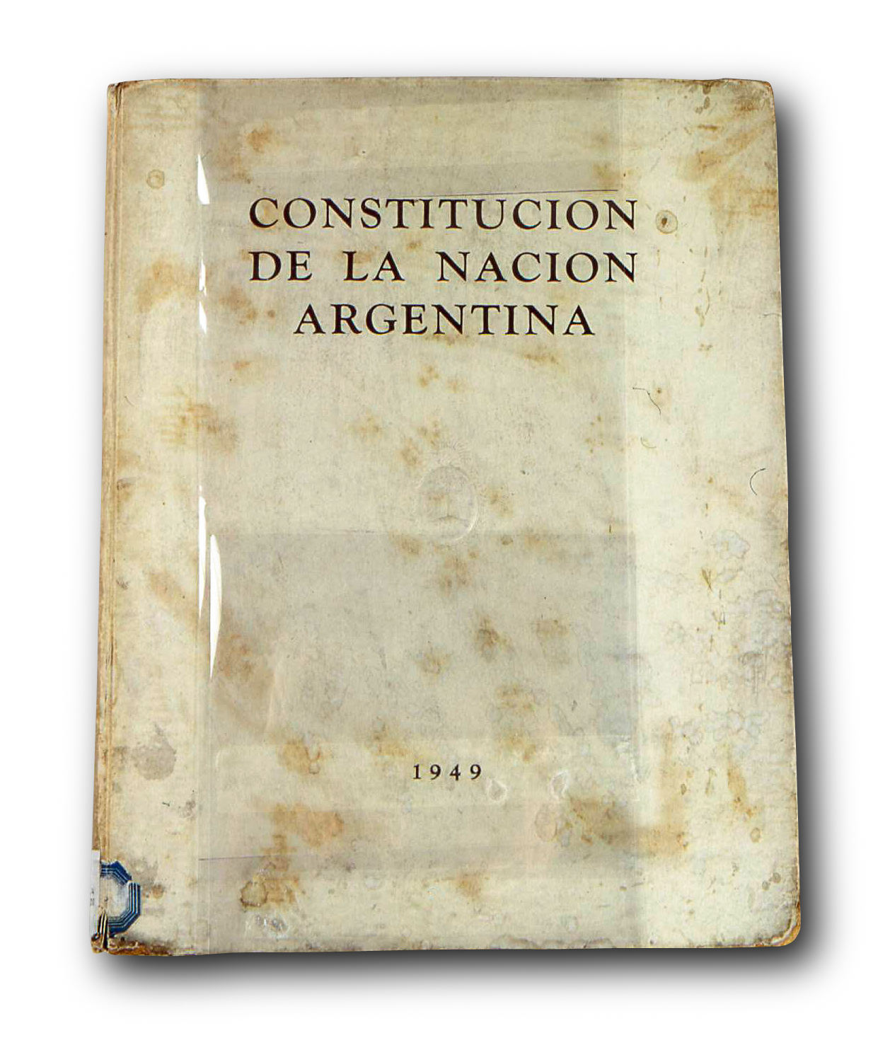 Copy of the Argentine Constitution promulgated in 1949 during the first presidency of Juan Perón.